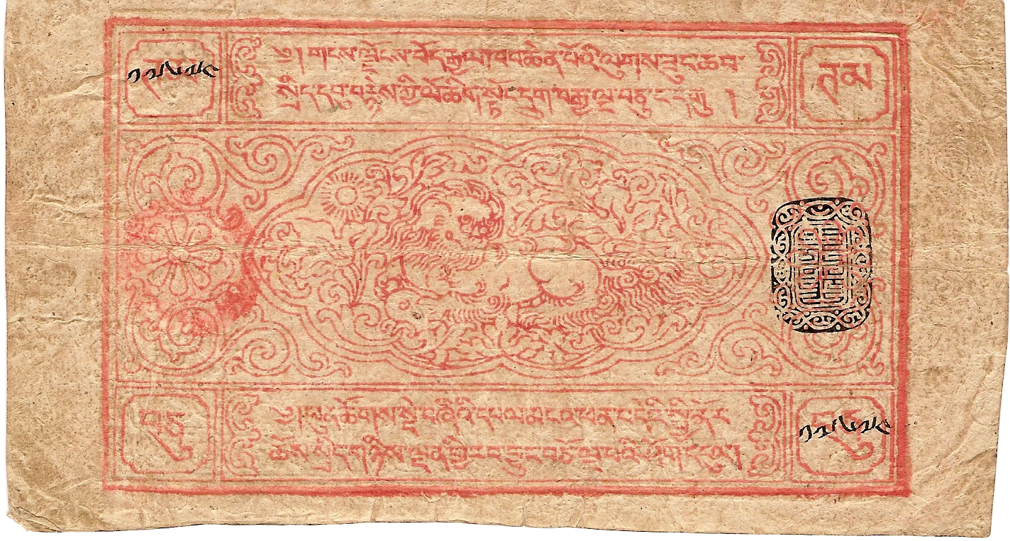 Tibetan 10 tam banknote, dated T.E. 1659 (= AD 1913), serial number 17674 (face)